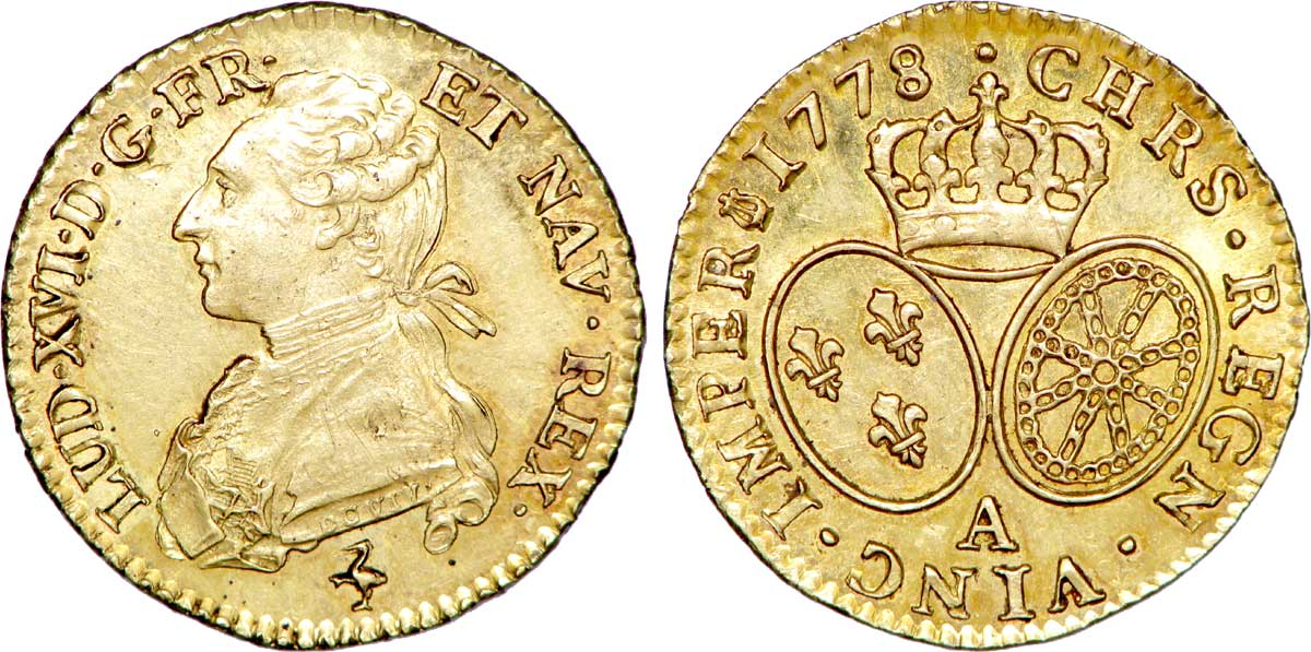 Louis XVI dit aux lunettes. Le jeune monarque est agé d'une vingtaine d'années.